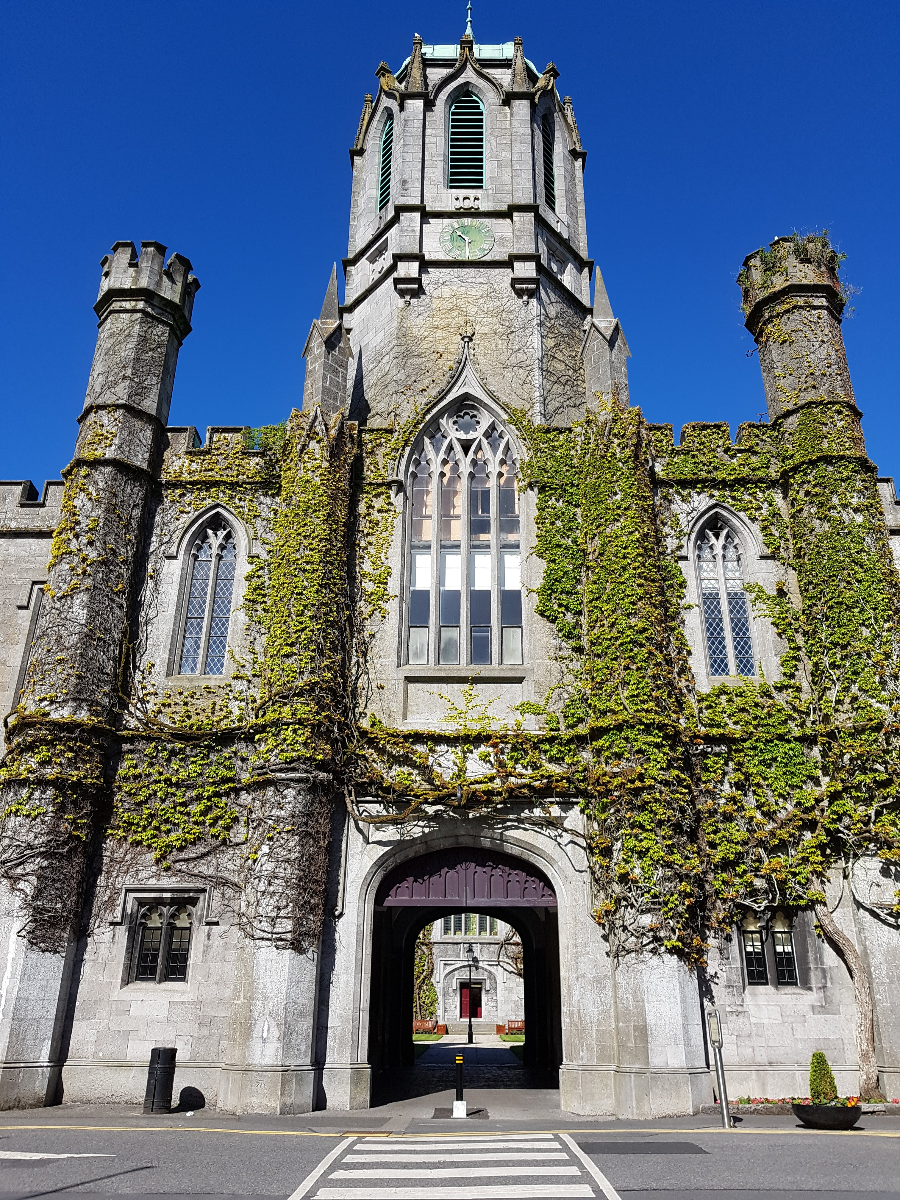 County Galway, NUI Galway. Wikidata has entry Q55046197 with data related to this item.